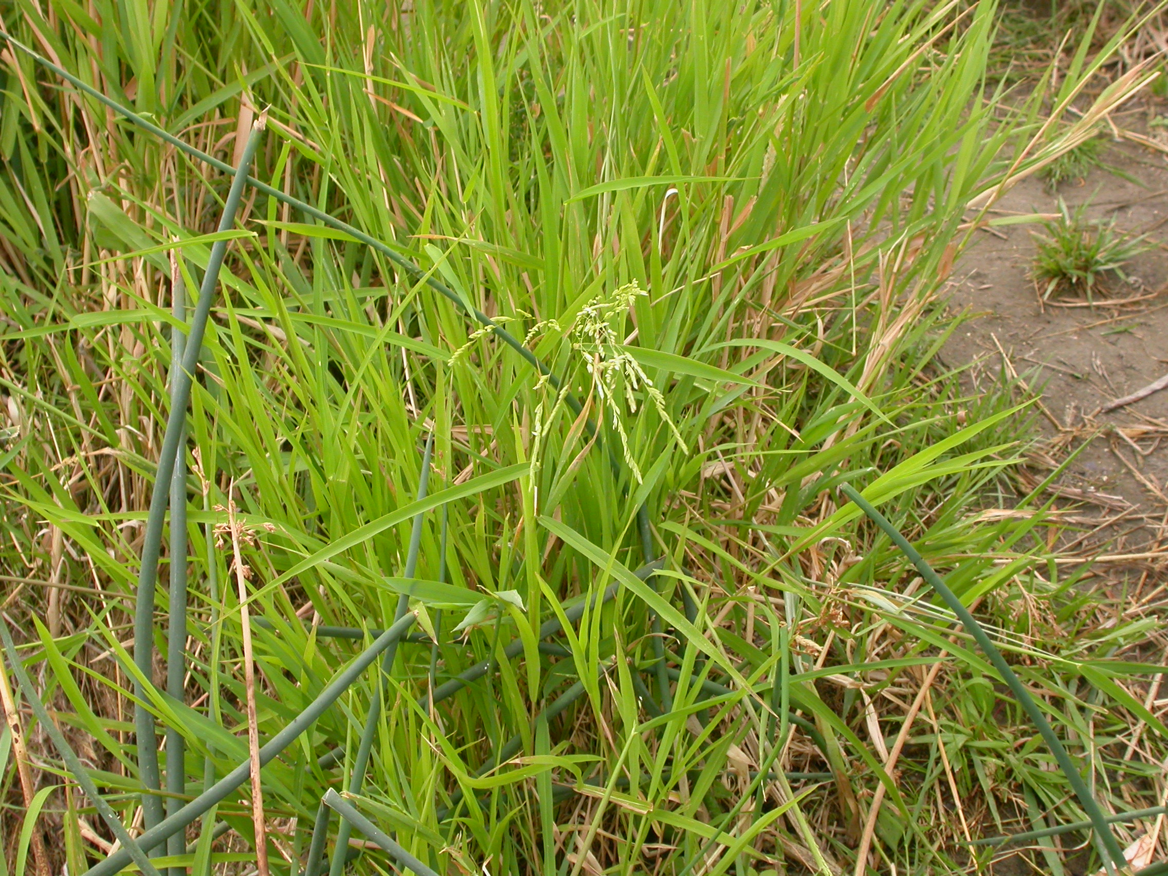 The panicle of Leesia (at center) is mostly open but is initially contracted and narrow. Leersia is shown here growing through the broad green leaves of Phalaris arundinacea and the round darker green leaves of Scirpus validus.